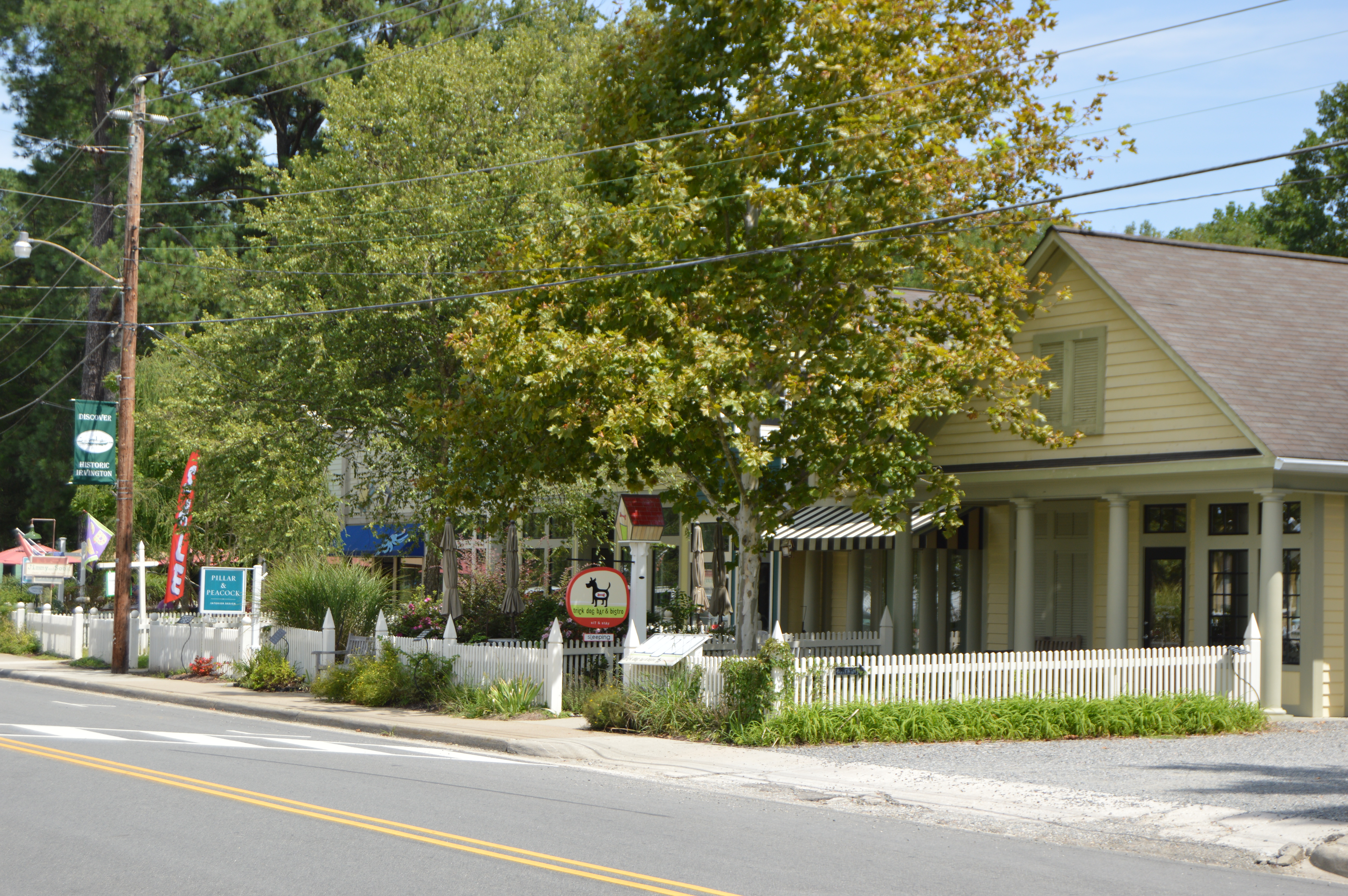 Houses-turned-businesses on Irvington Road (State Route 200) in Irvington, Virginia, United States. These buildings are part of the community's historic district, which is listed on the National Register of Historic Places.